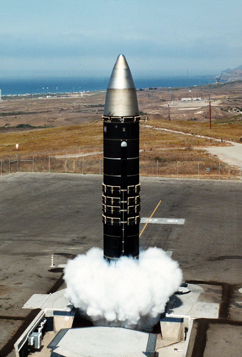 Test launch of LGM-118 Peacekeeper Intercontinental ballistic missile by United States Air Force